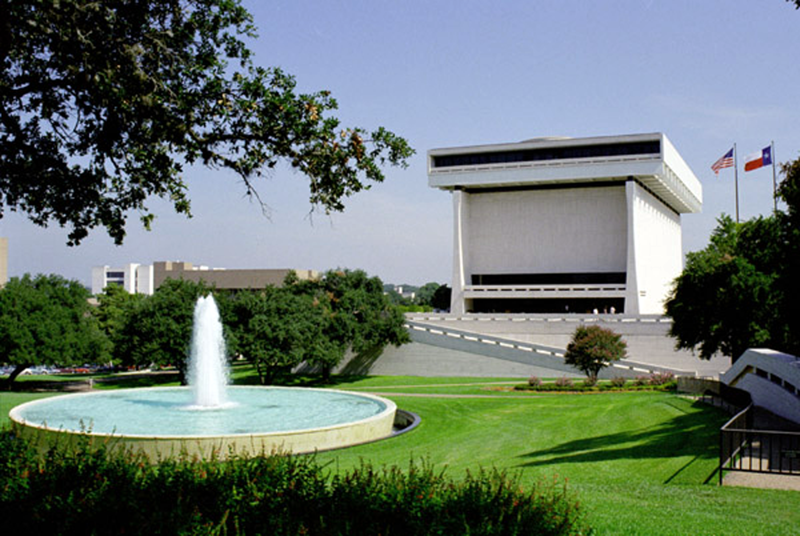 The Lyndon Baines Johnson Library and Museum